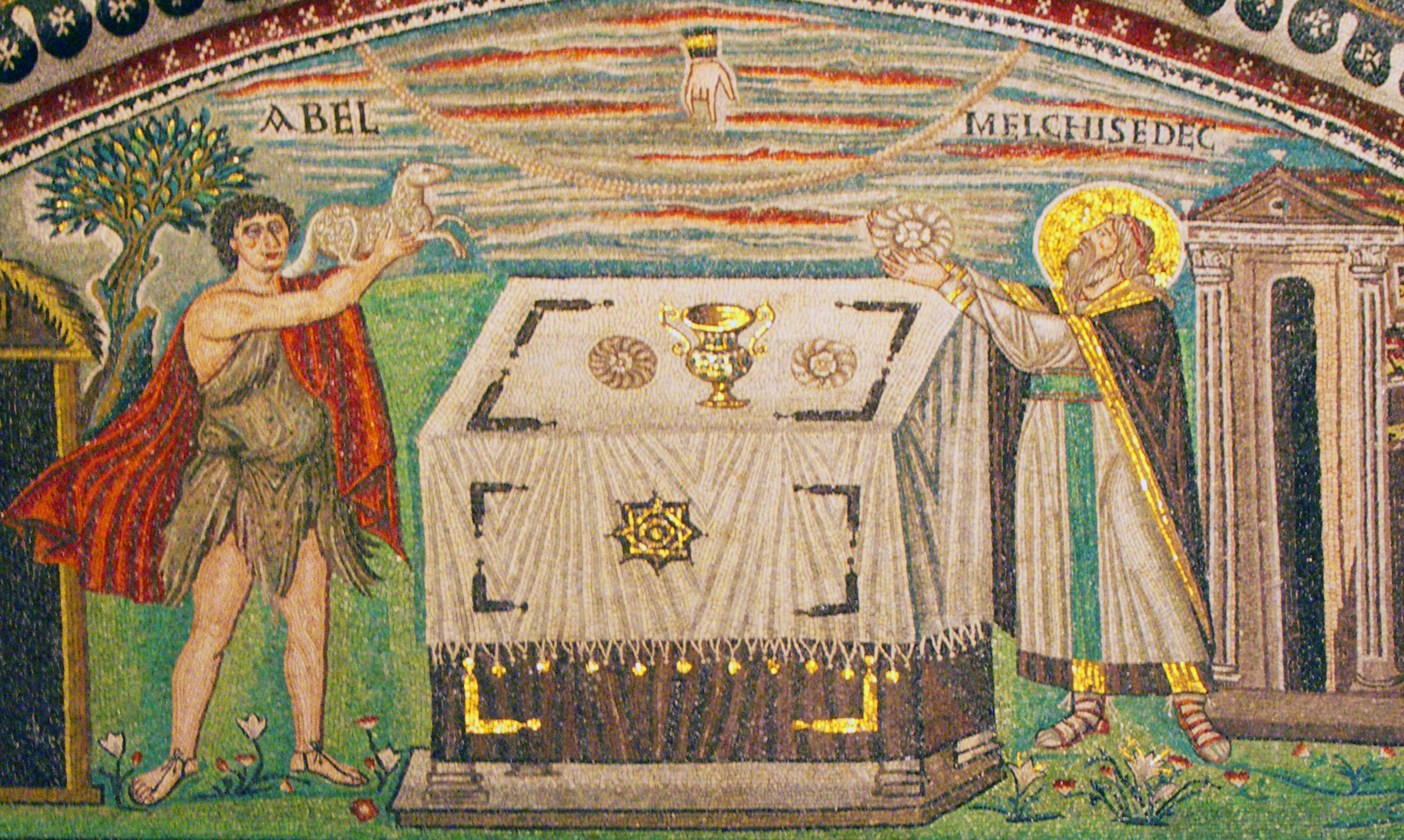 In the 6th Century Church of San Vitale in Ravenna the 'altar' at which Abel and Melchizedek make their offerings has two loves and a jewelled chalice similar in design to the plain one found at Water Newton.